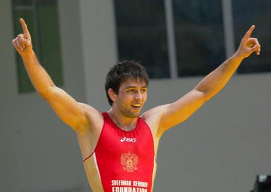 Soslan Ramonov, Russian freestyle wrestler